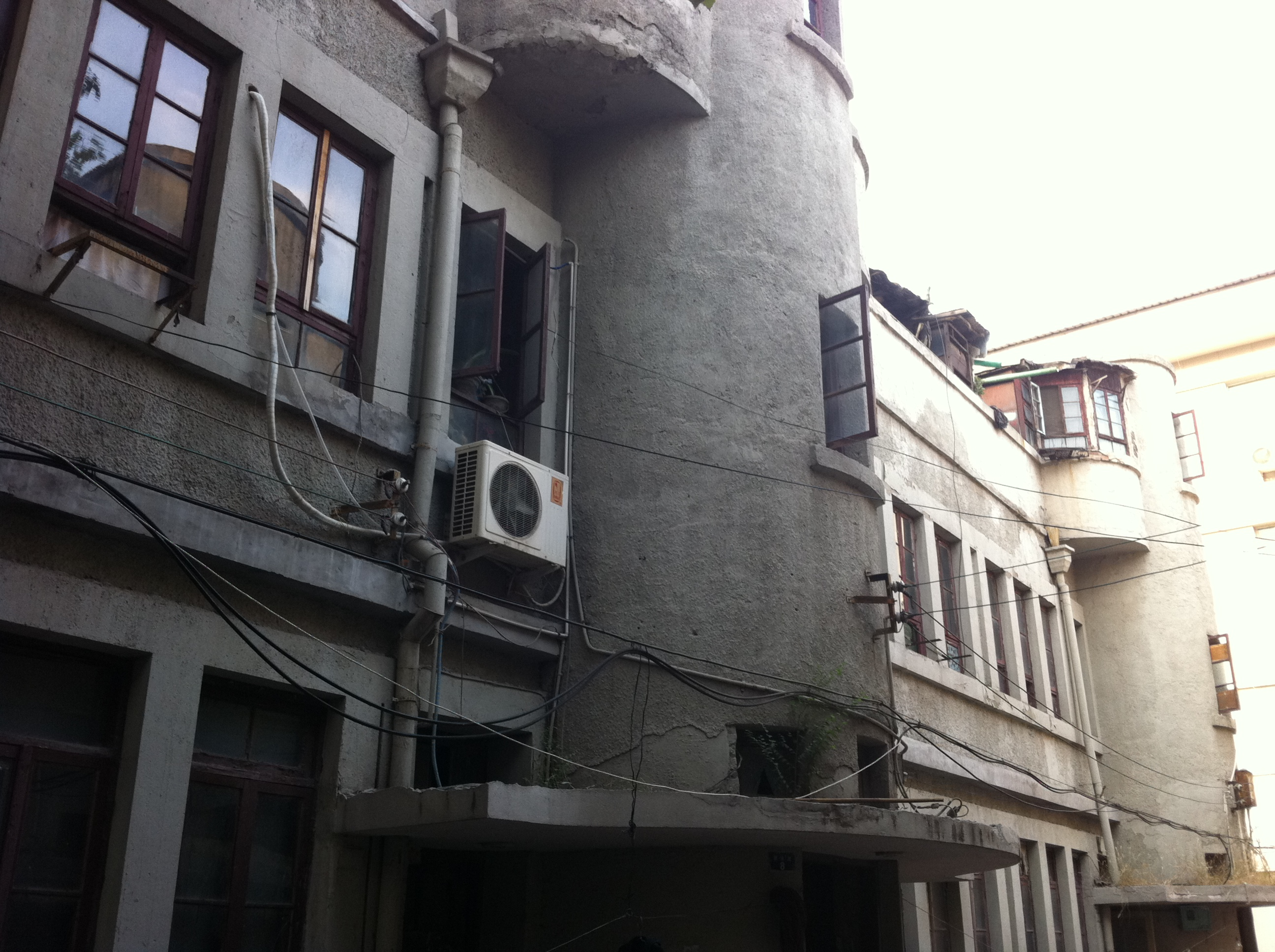 Menggu Lu ("Mongolia Road") Xinjia Quarter No. 2–14